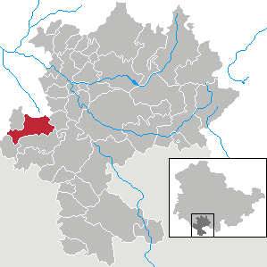 Haina in Thuringia - district Hildburghausen